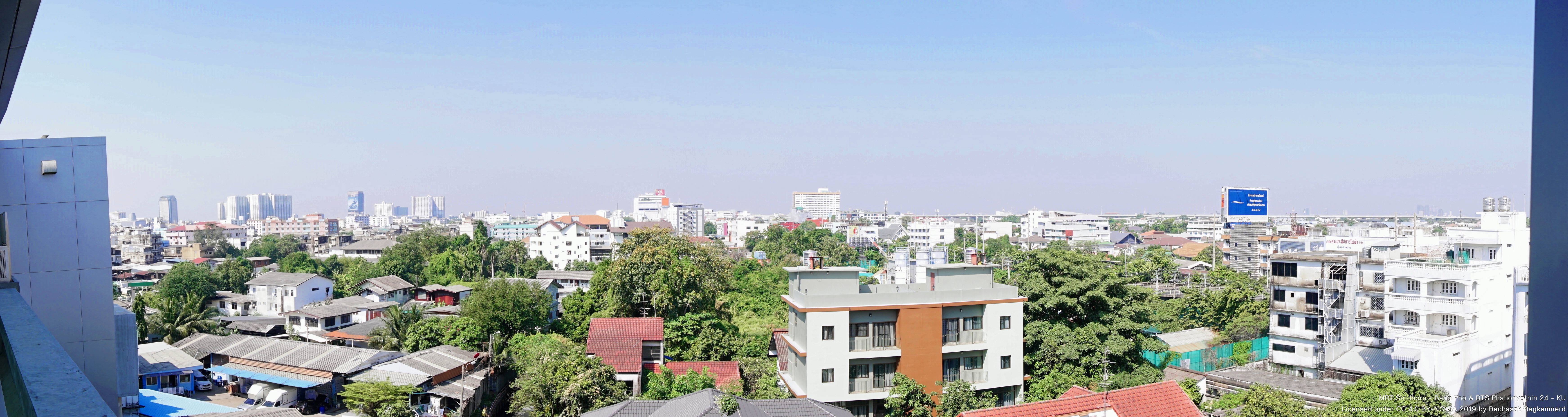 MRT Sirindhorn - Platform panoramic view